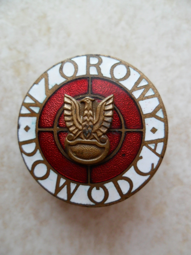 Badge "Exemplary Commander"